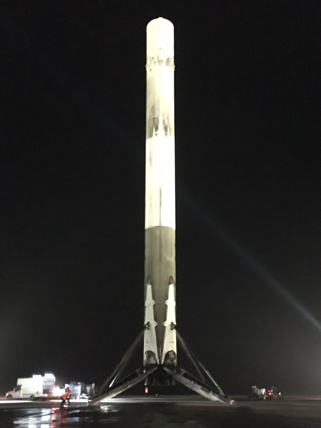 The first stage of a Falcon 9 rocket, which launched 11 Orbcomm OG2 satellites, sits on the pad after successfully returning to Cape Canaveral under powered flight and landing vertically. This marks the first time an orbital spaceflight has landed a rocket stage.